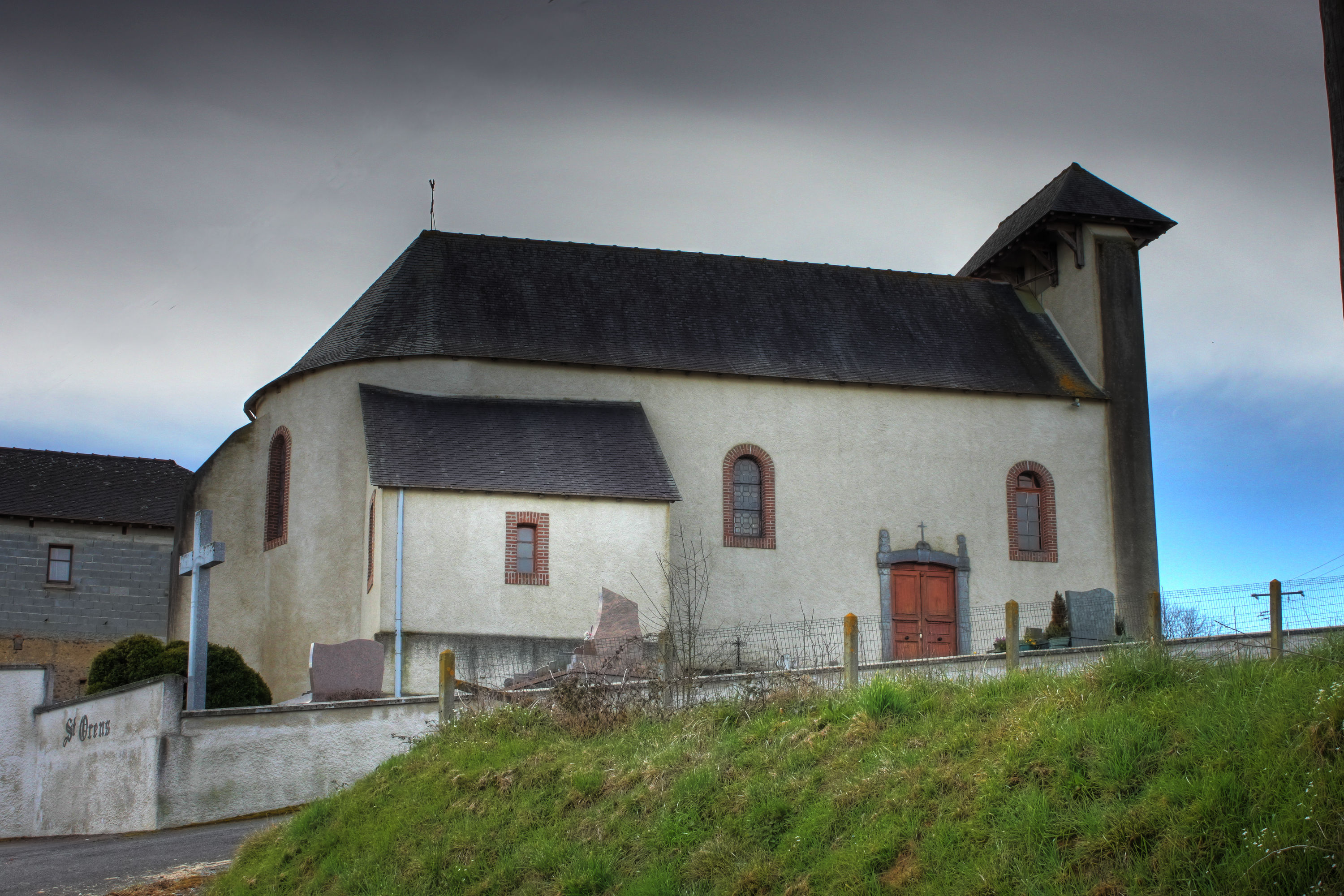 The church at Ponson-Debat-Pouts in the Atlantic-Pyrenees department in France. The church is dedicated to St Orentus aka St Orentius (Saint-Orens in French)